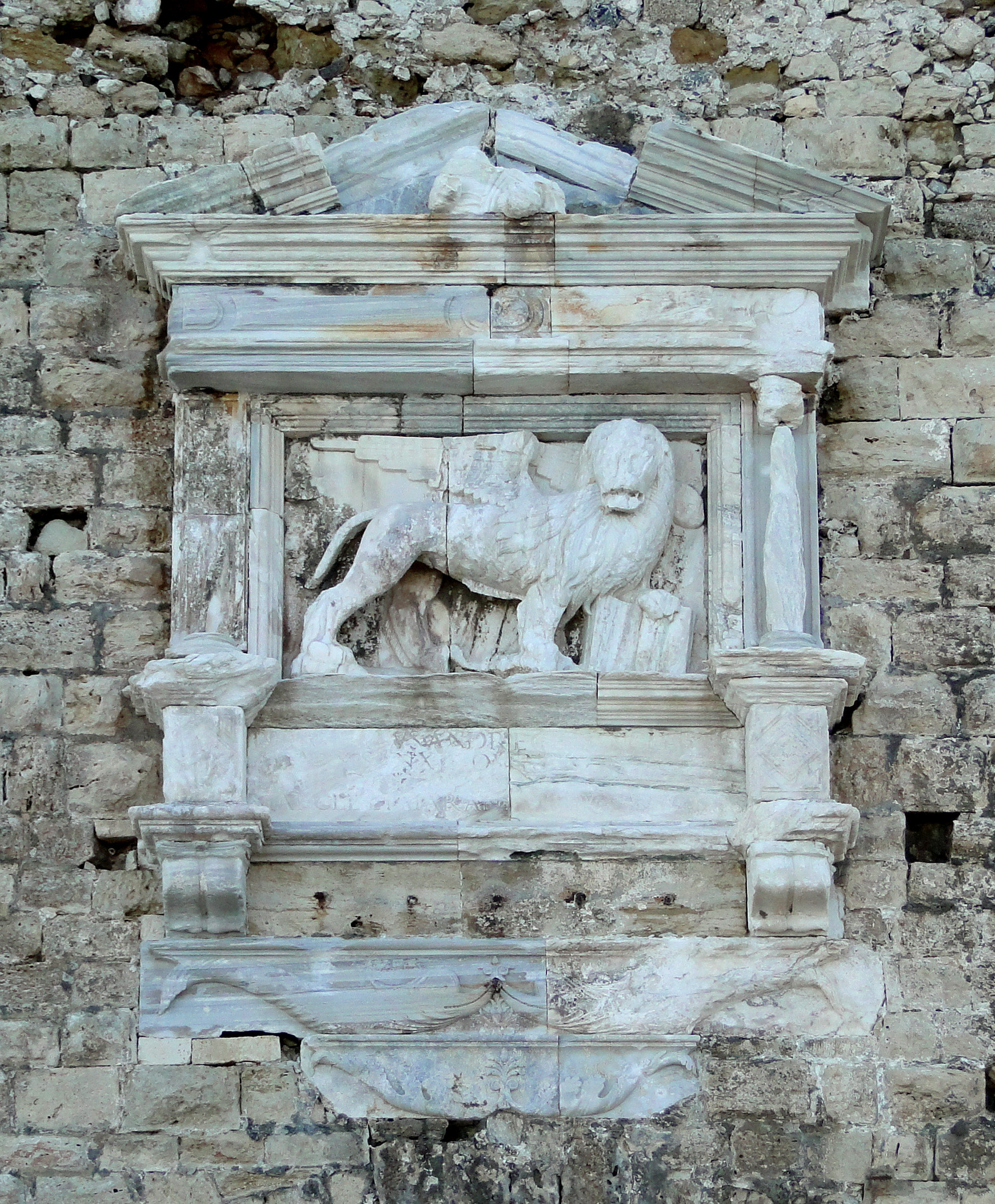 Sculpture of a lion on the Fortress of Koules, Heraklion, Crete, Greece